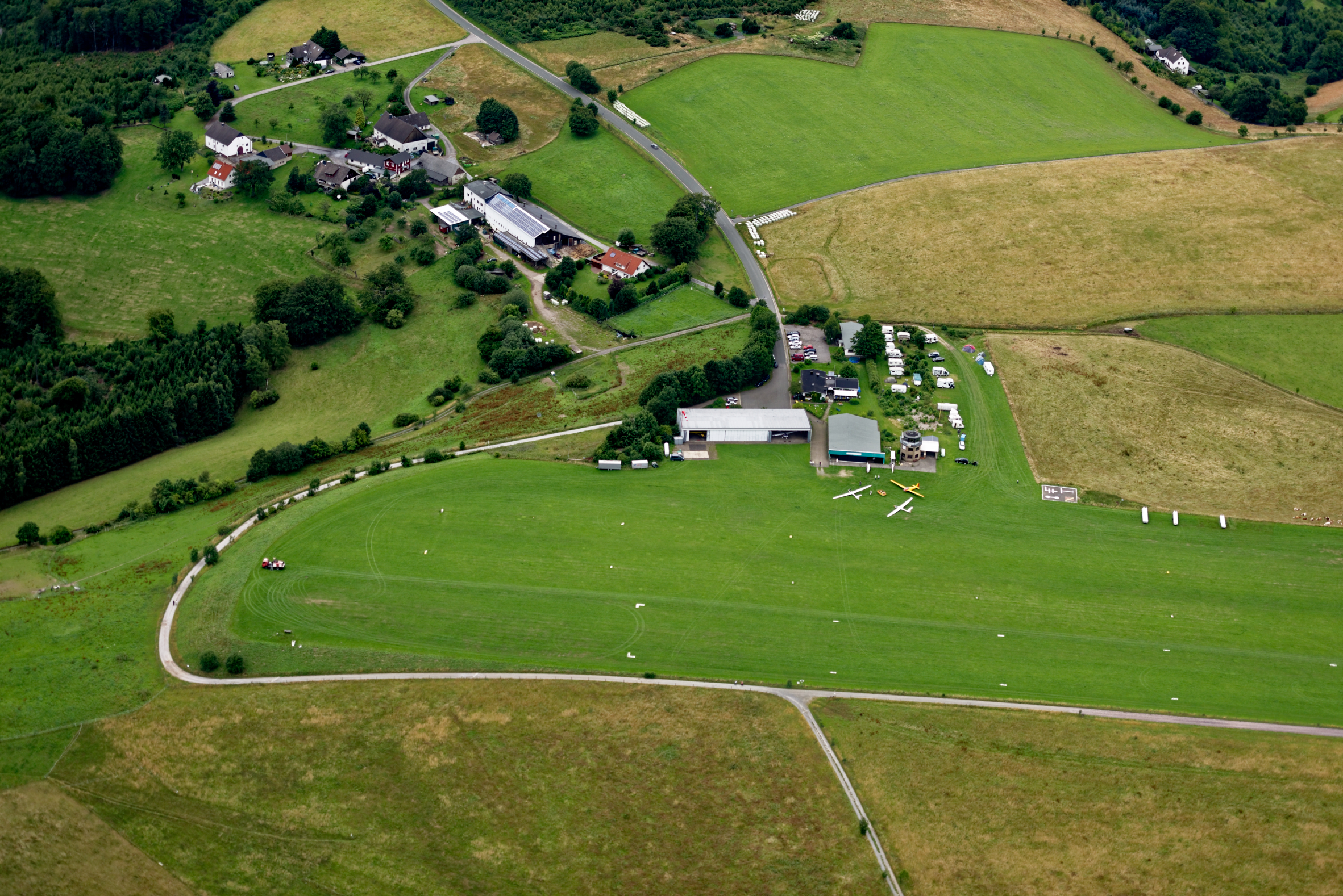 Hegenscheid und Teil des Flugplatzes Altena-Hegenscheid The making of this document was supported by the Community-Budget of Wikimedia Germany.